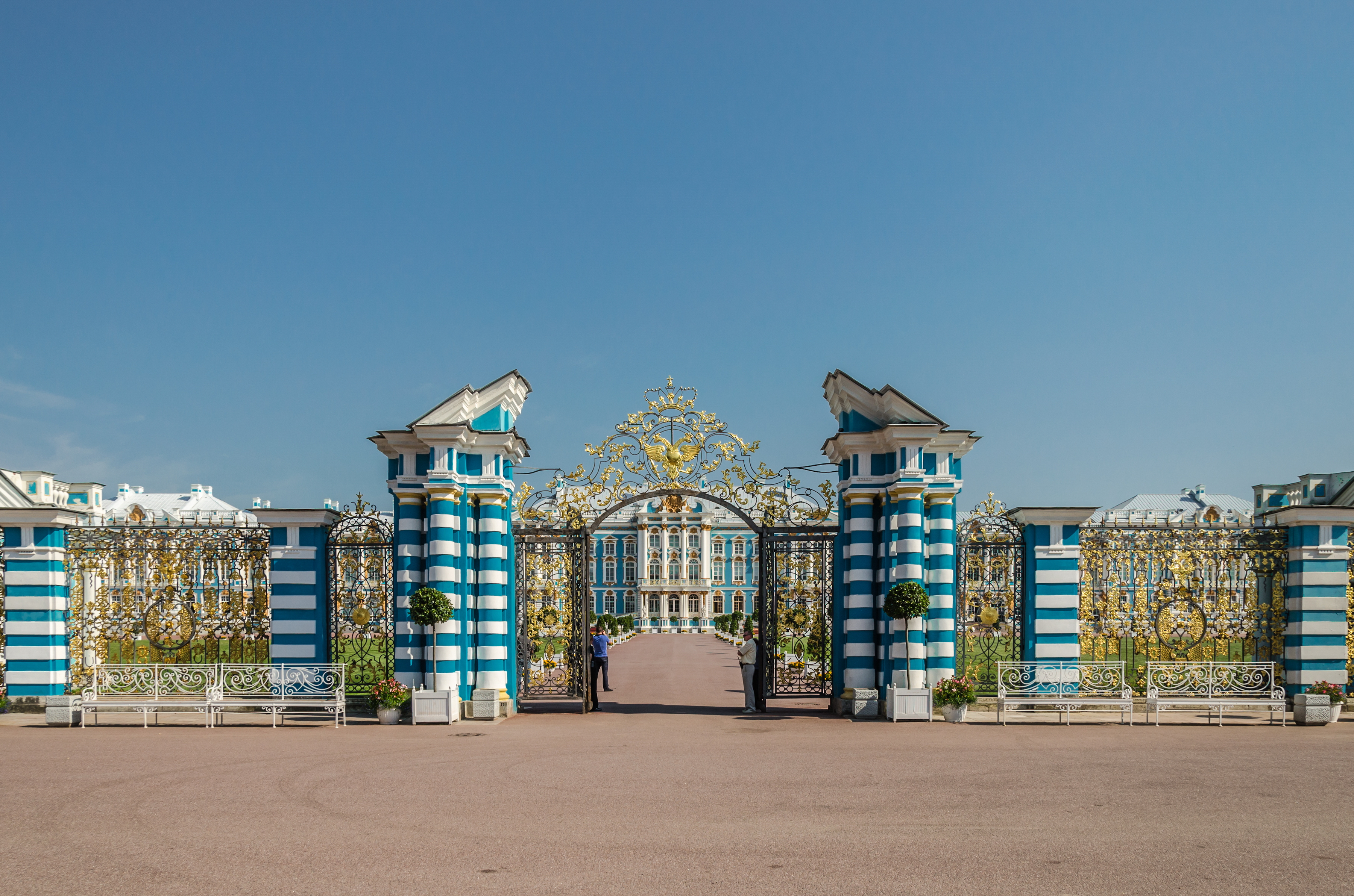 Golden Gates of Catherine Palace, Tsarskoe Selo. Saint Petersburg.